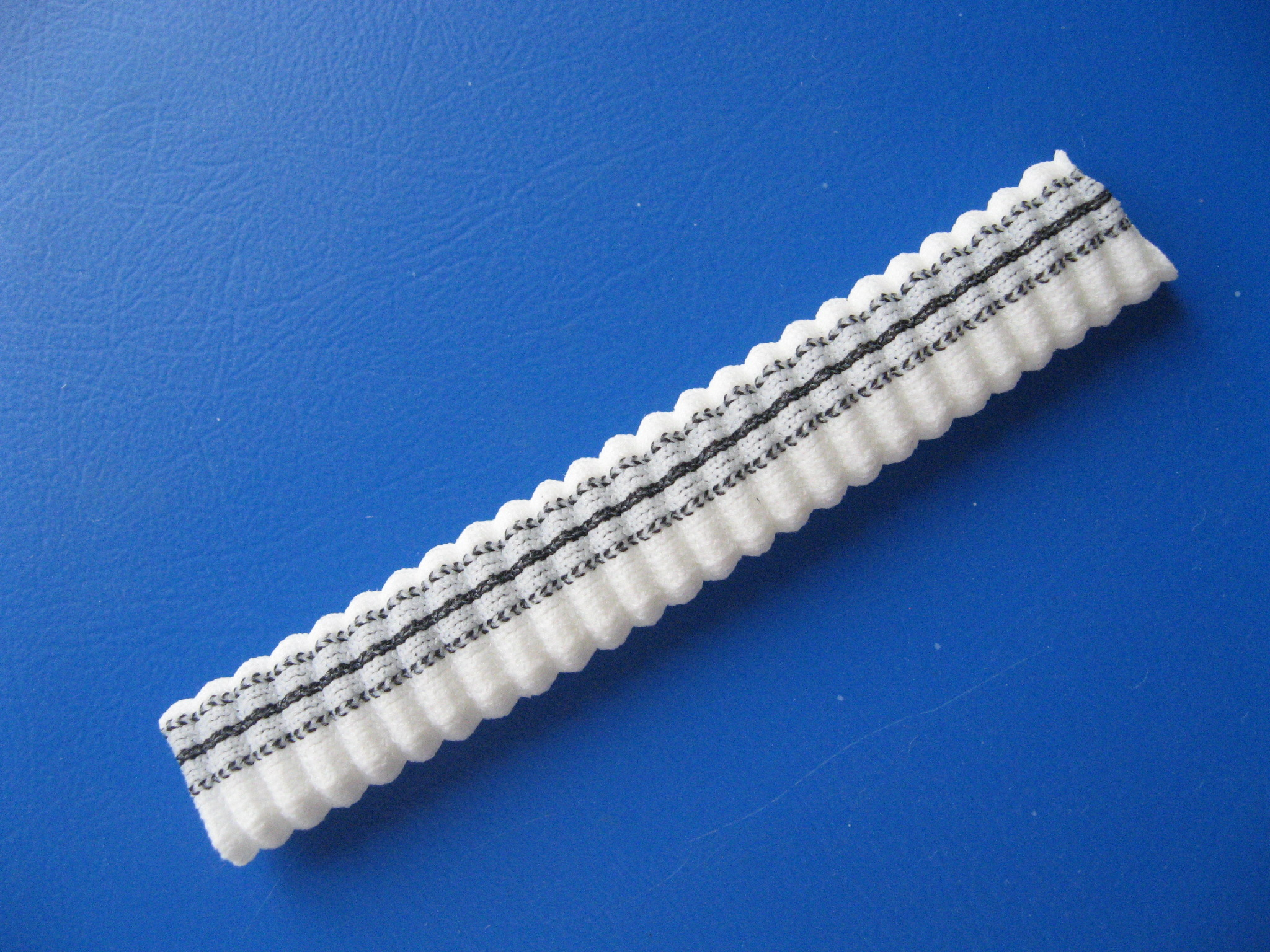 Knitted artificial blood vessel finished